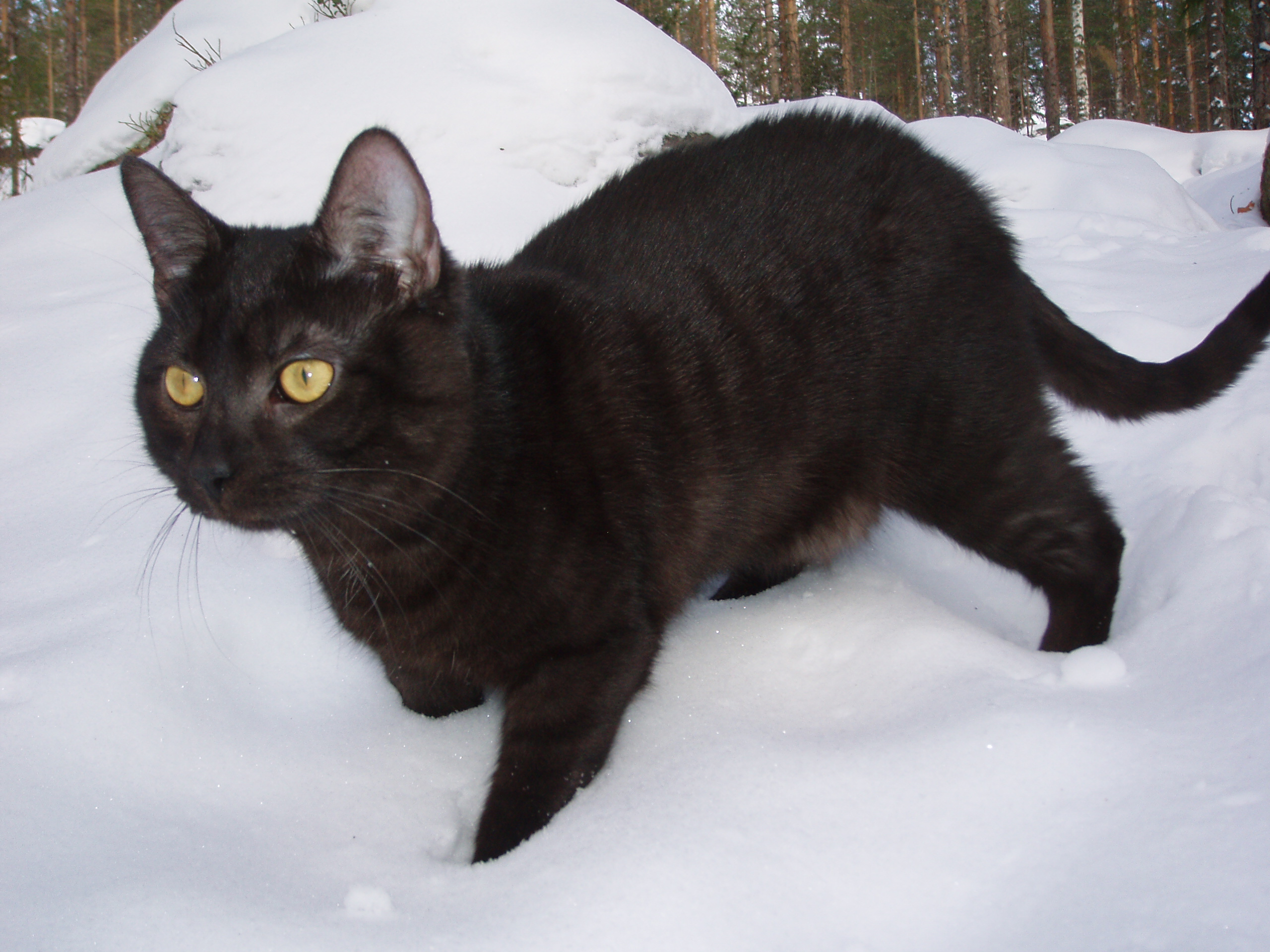 Black cat sneaking in snow